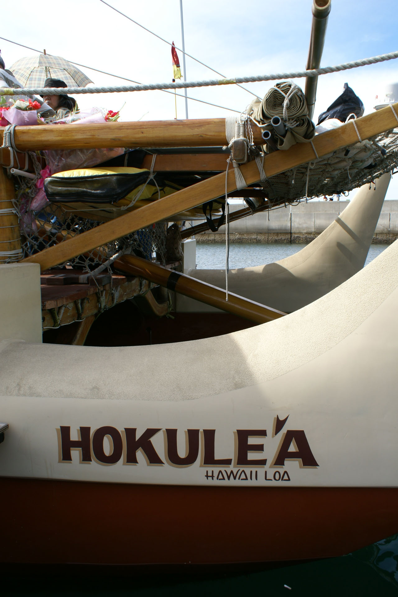 Hawaiian Voyaging Canoe Hokule'a, its stern and steering sweep. Suo Oshima.